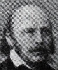 Hartvig Caspar Christie (1826–1873), norwegian geologist and physicist